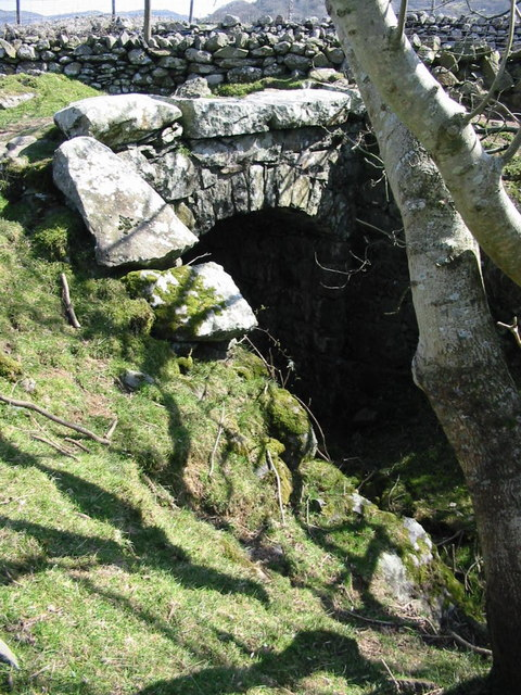 Gorseddau tramway bridge People passing along the road hardly notice this old bridge where the track of the nineteenth century tramway passes underneath.